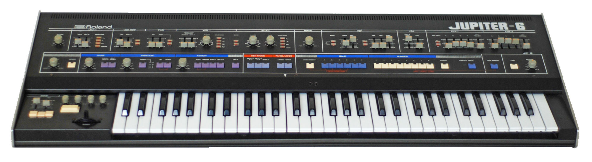 A picture of the Roland Jupiter-6 analog polyphonic synthesizer from 1983